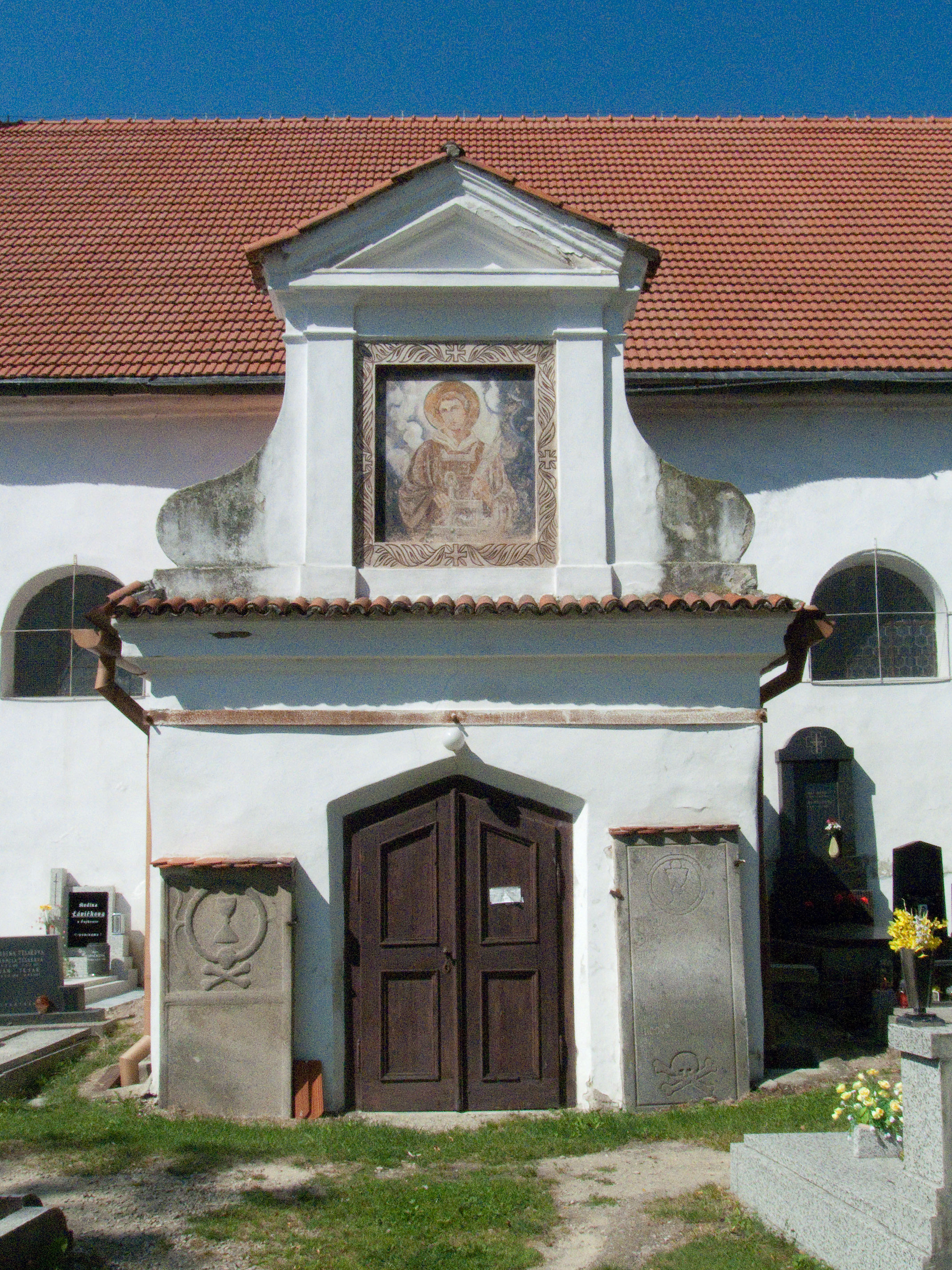 St Lawrence Church entrance in Pištín, České Budějovice district,Czech Republic